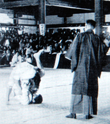 kosen-judo